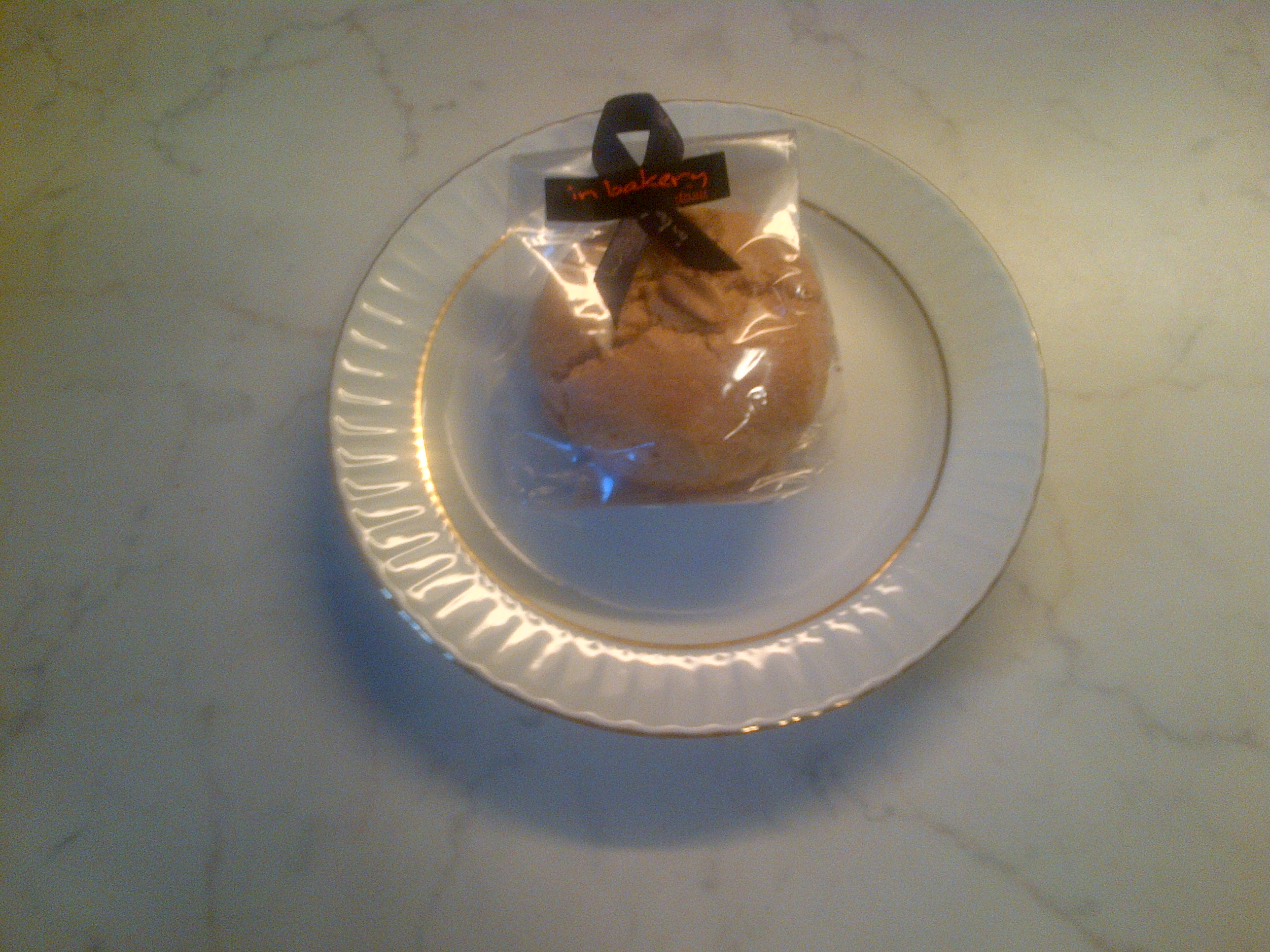 A pair of bitter almond kurabiyes ("Acıbadem kurabiyesi") from Turkey.